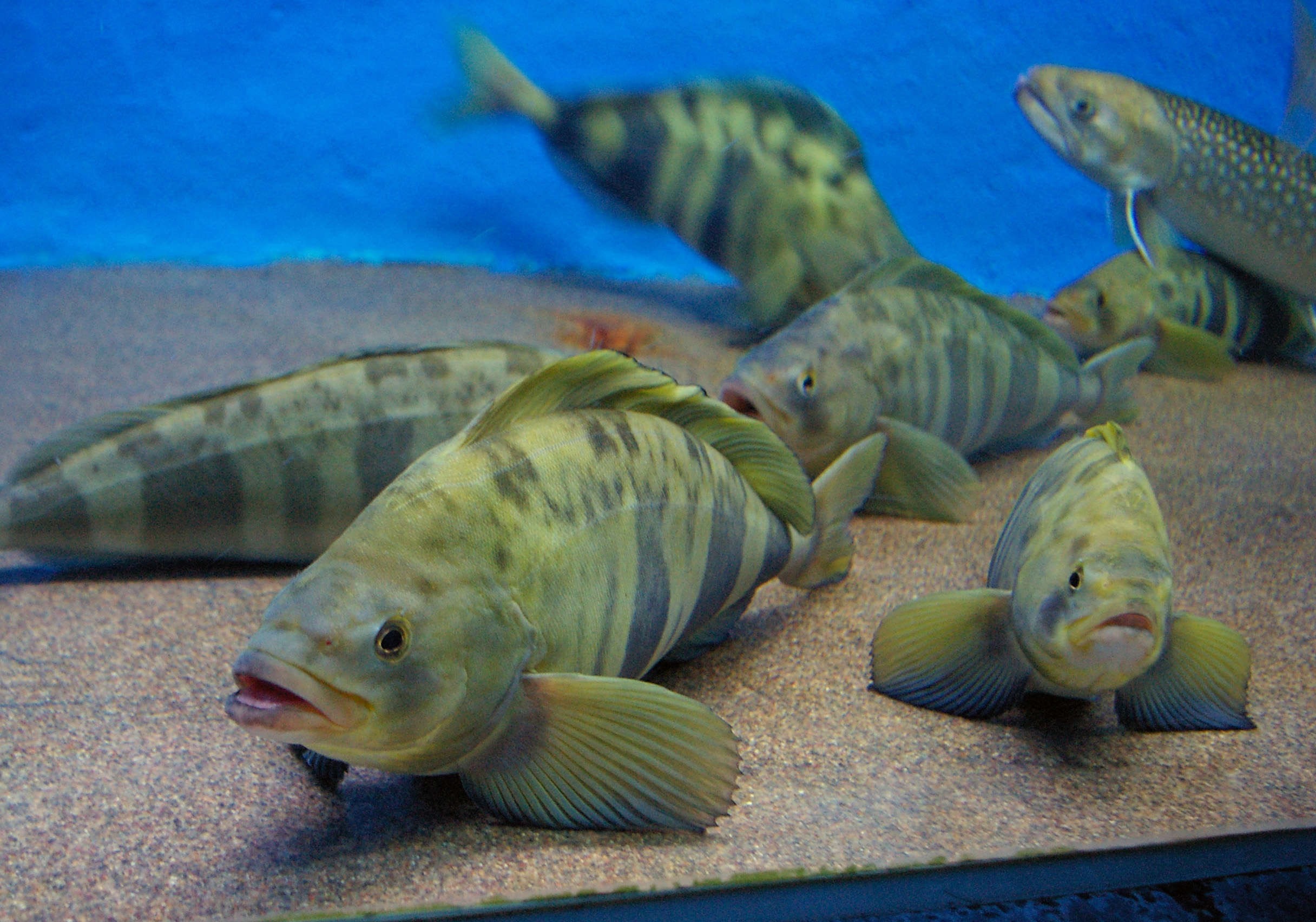 Atka mackerel taken at Muroran aquarium in Hokkaido, Japan